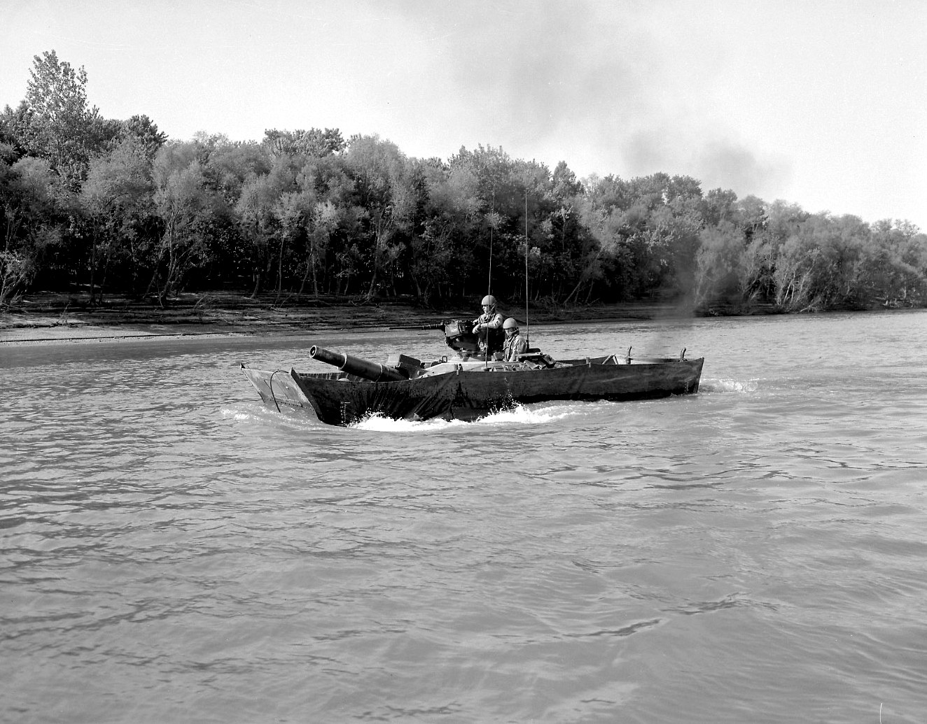 XM-551 Pilot #12 during amphibious operation testing at Fort Knox, Kentucky.